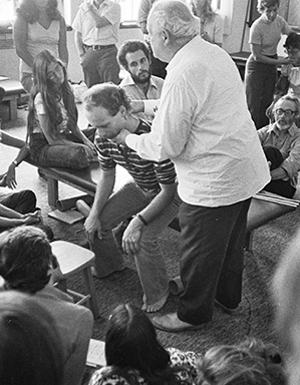 This photo depicts Moshe Feldenkrais, creator of the Feldenkrais Method, demonstrating the Functional Integration technique at a practitioner training program in San Francisco circa 1978.